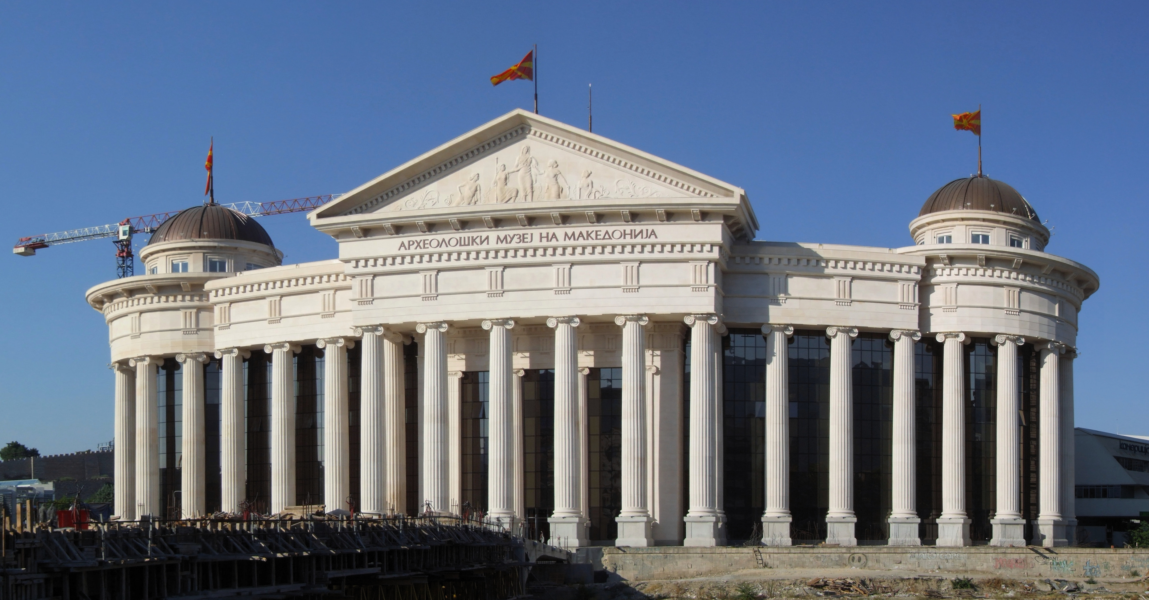 Archeological Museum of Macedonia in Skopje